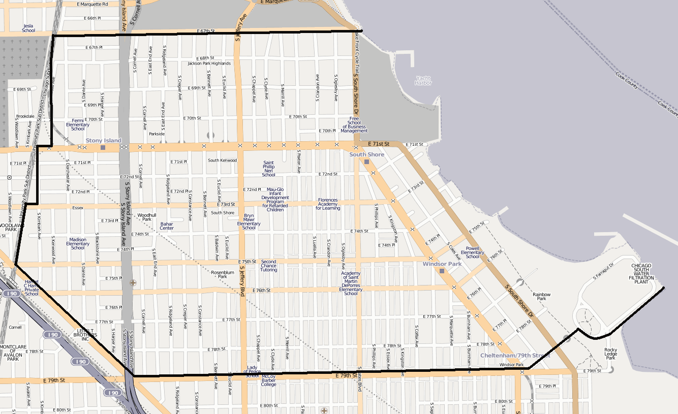 South Shore, Chicago This map may be incomplete, and may contain errors. Don't rely solely on it for navigation.